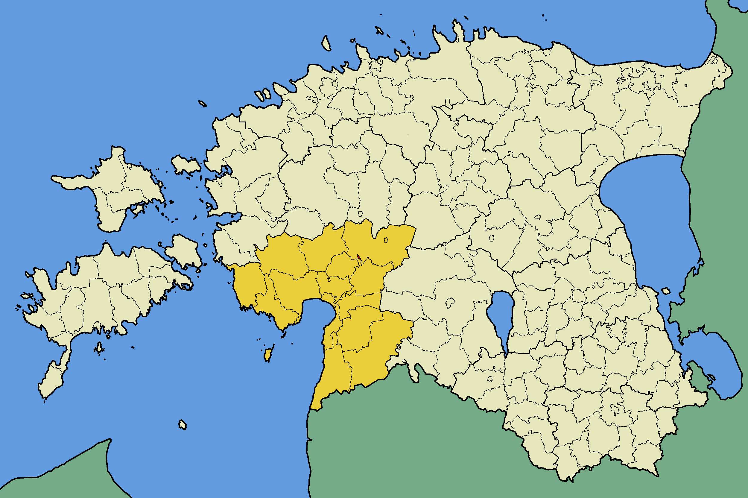 Map of Estonia with borders of municipalities (parishes). Pärnu county and Tootsi municipality emphasized.